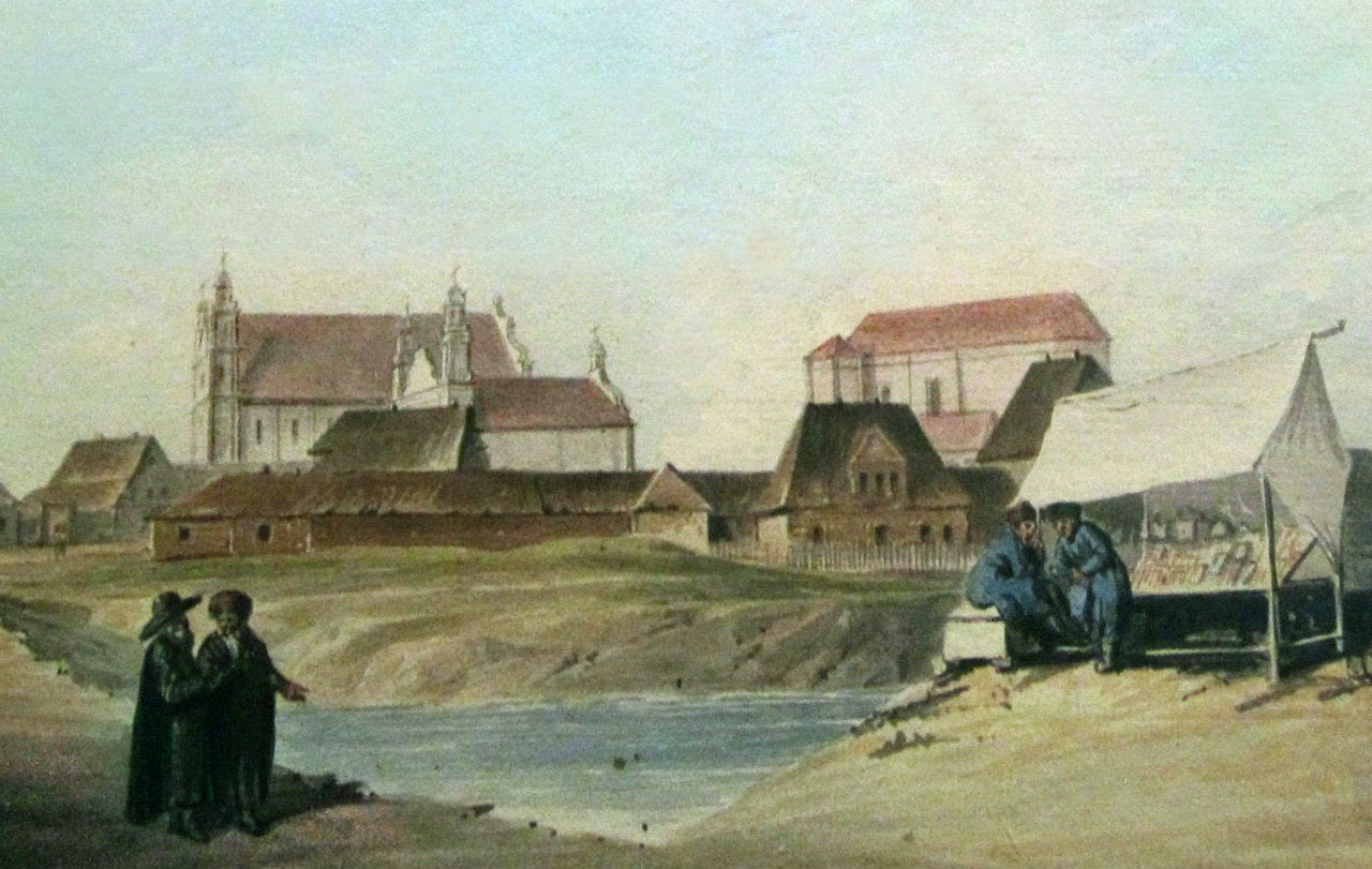 View of Viciebsk